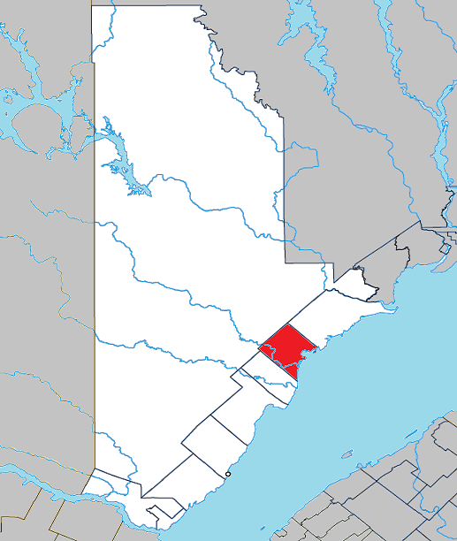 Location of Forestville, Quebec within La Haute-Côte-Nord Regional County Municipality.